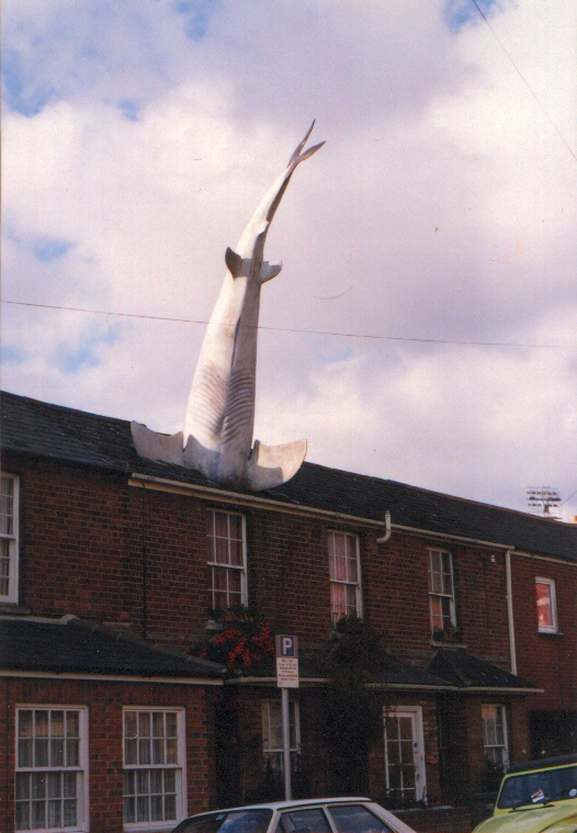 Scan of a 20 year old photo of the Headington shark.